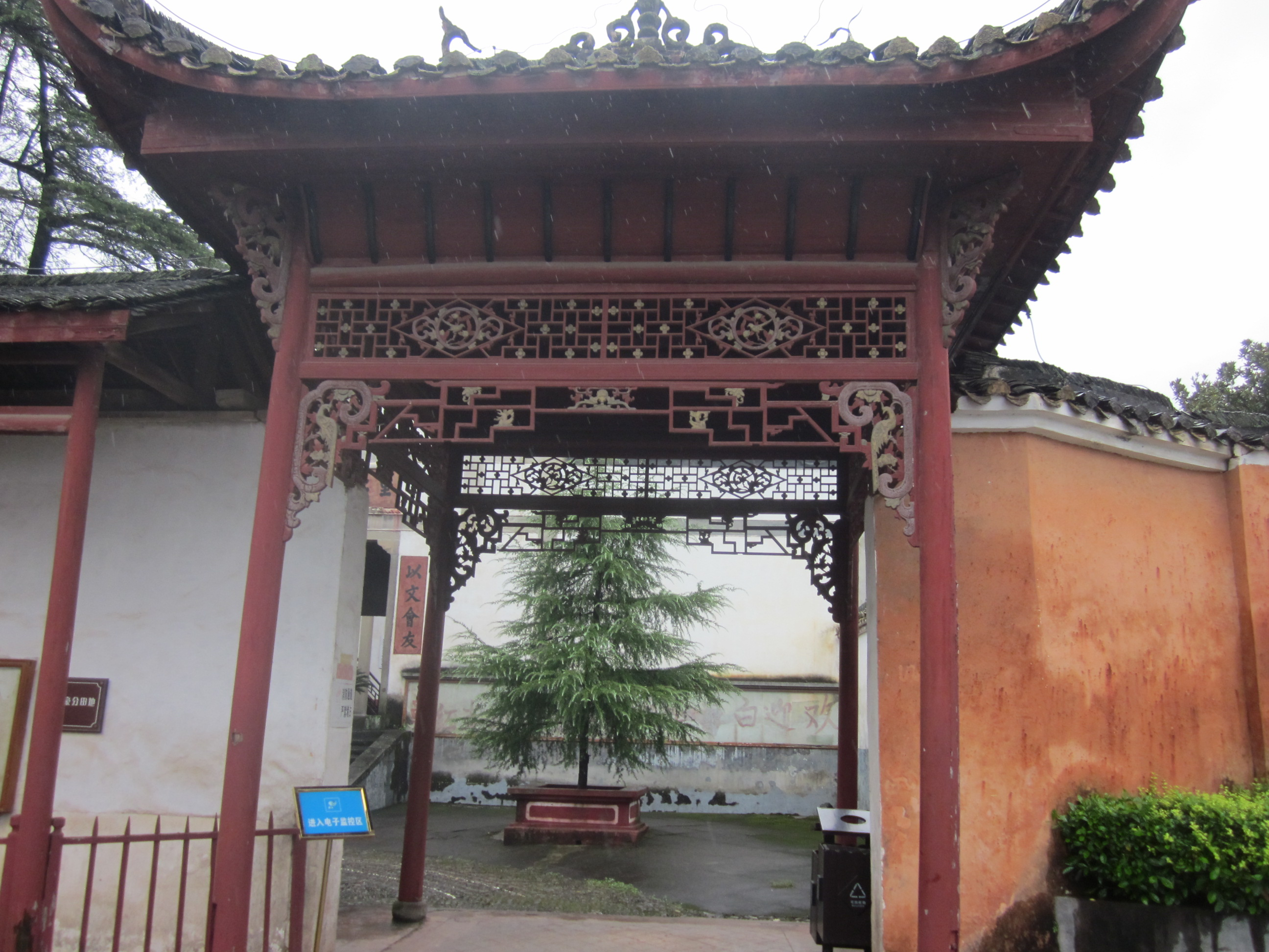 The Site of Joining Forces in Wenjiashi of Autumn Harvest Uprising (Chinese: 秋收起义文家市会师旧址) , located in Liuyang City, Hunan Province, is one of the famous tourist attractions in Changsha.